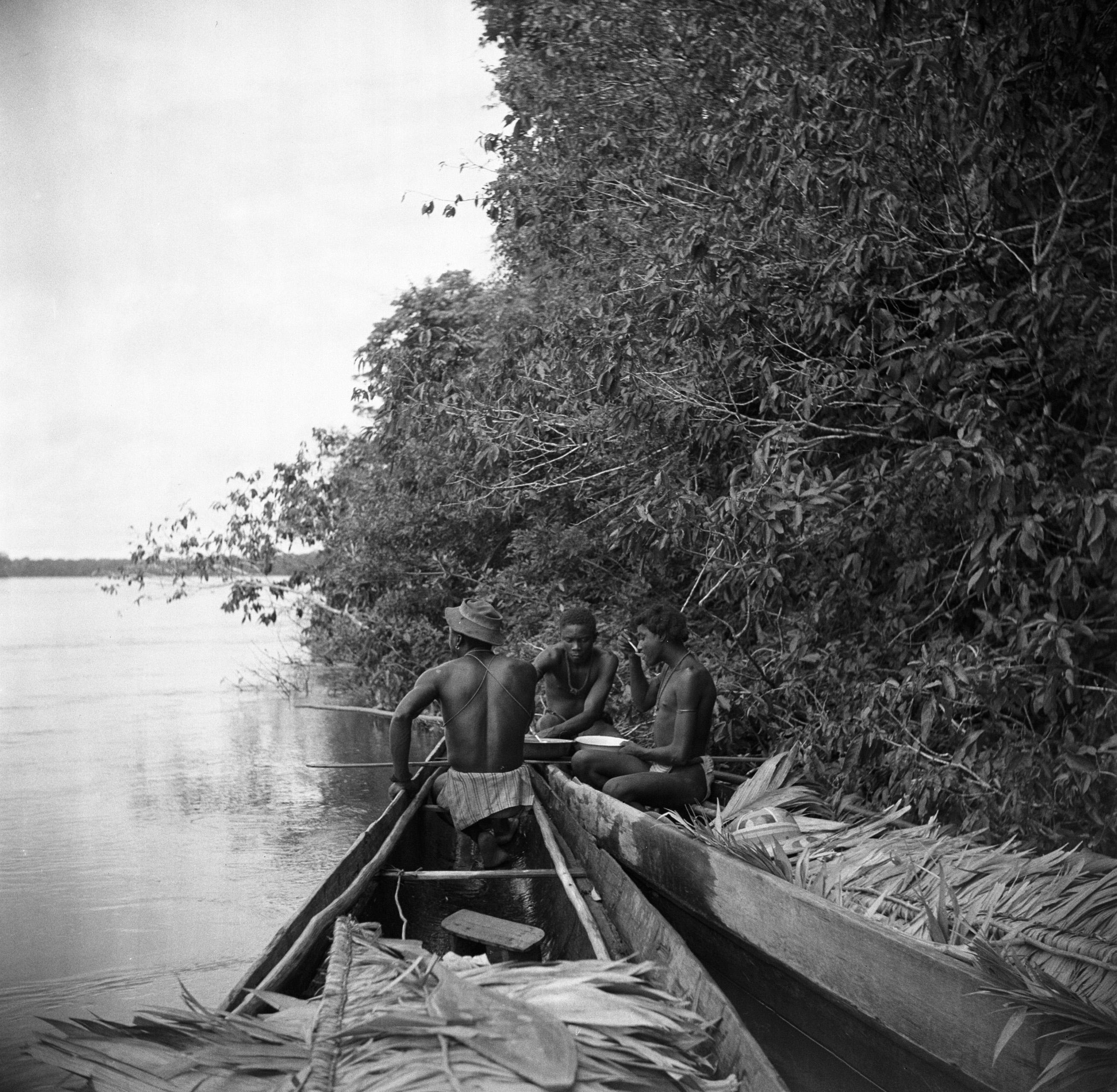 Pirogue stopped for a meal on the bank of the Maroni, in the Marowijne district (1947)